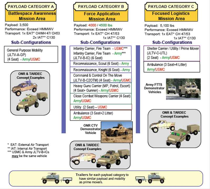 Joint Light Tactical Vehicle configuration